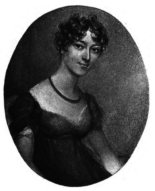 "Mrs. Valentine Wilmont", Barbarina Brand, Lady Dacre (née Ogle; 1768–1854), "from a miniature"